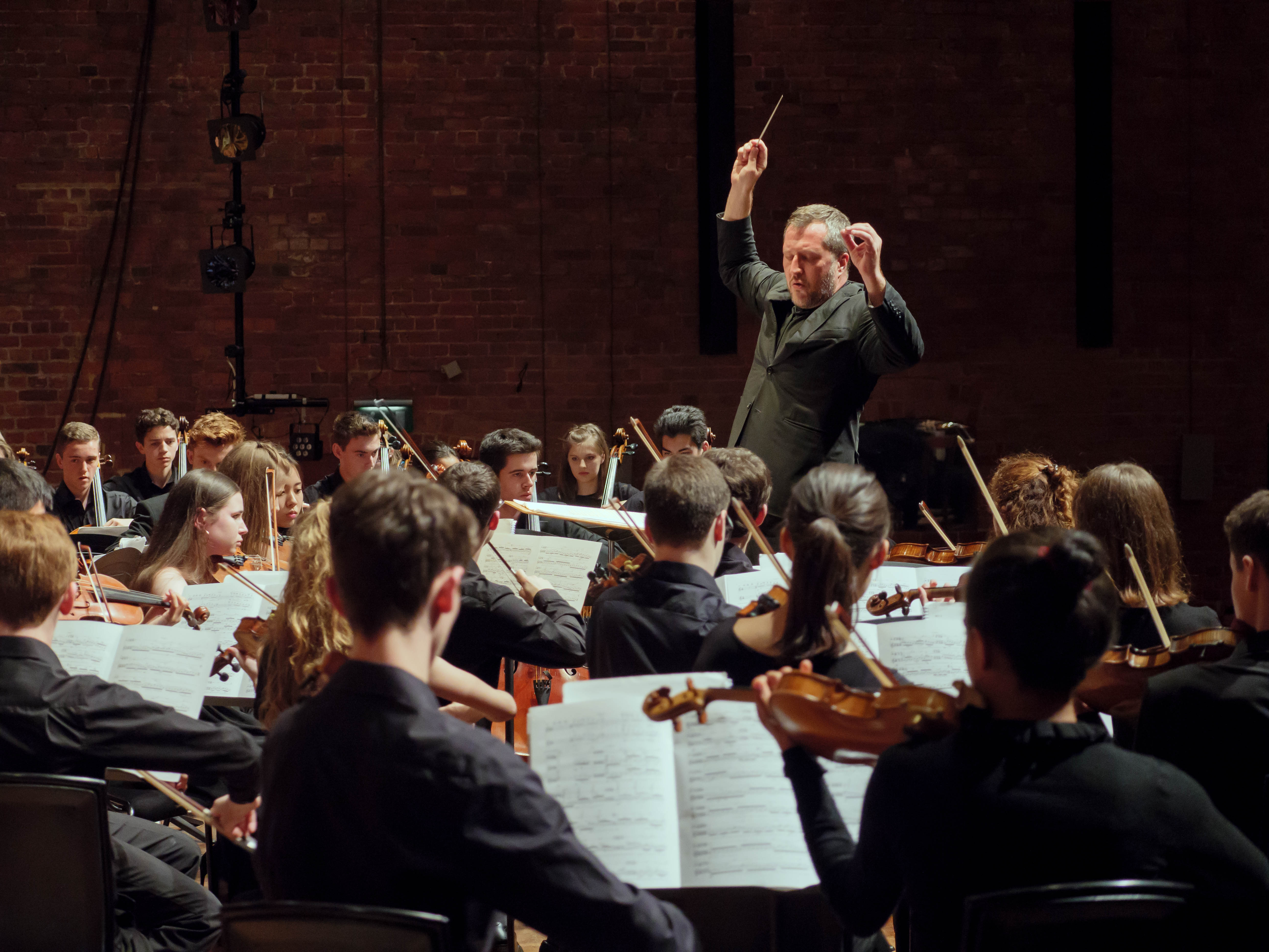 Snape Maltings Wikidata has entry Q7547298 with data related to this item.